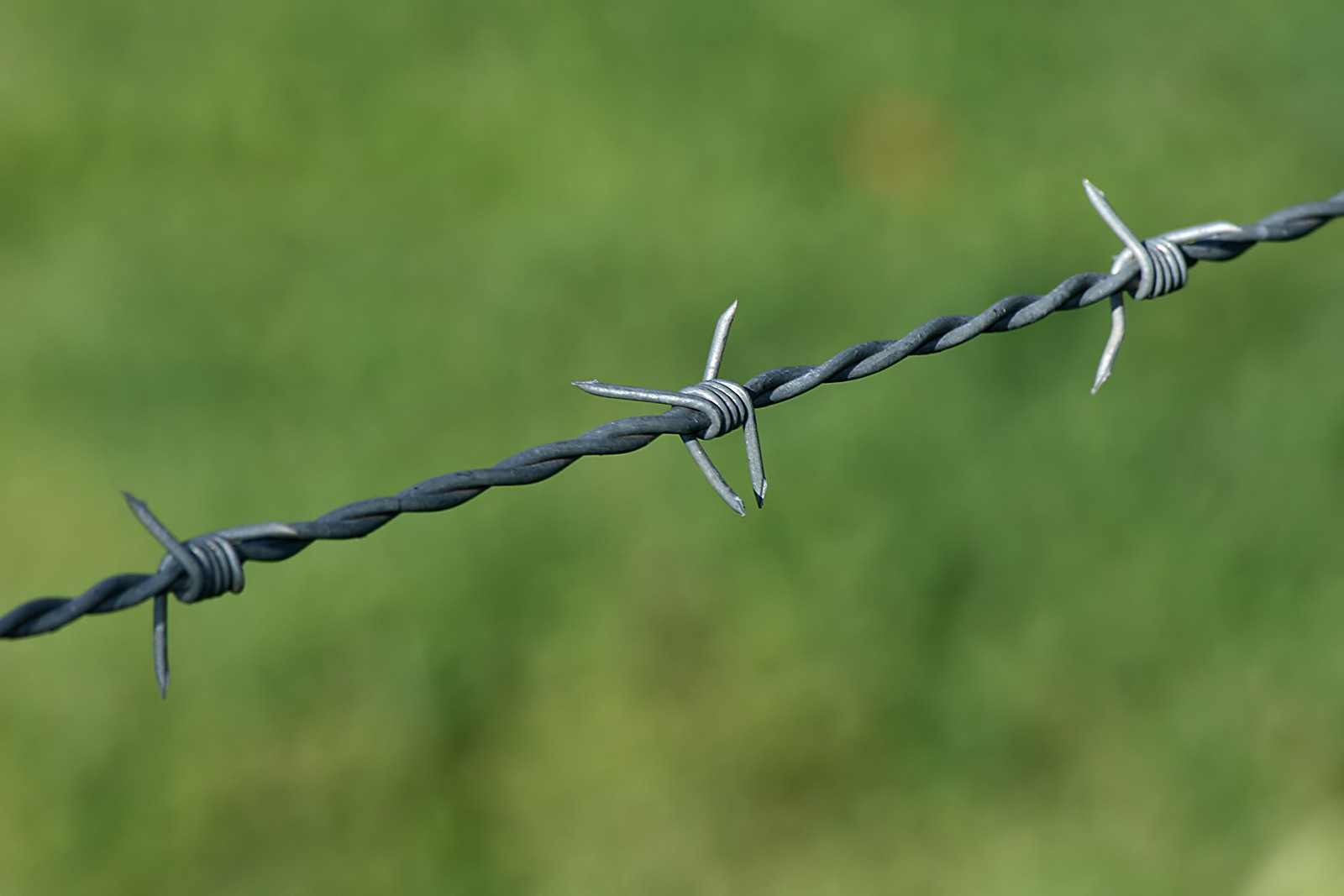 High tensile galvanised barbed wire used for agricultural fencing in Victoria, Australia. Length from tip-to-tip on the barbs is 2.5cm, barb spacing along the wire is 8.75cm between the centres.